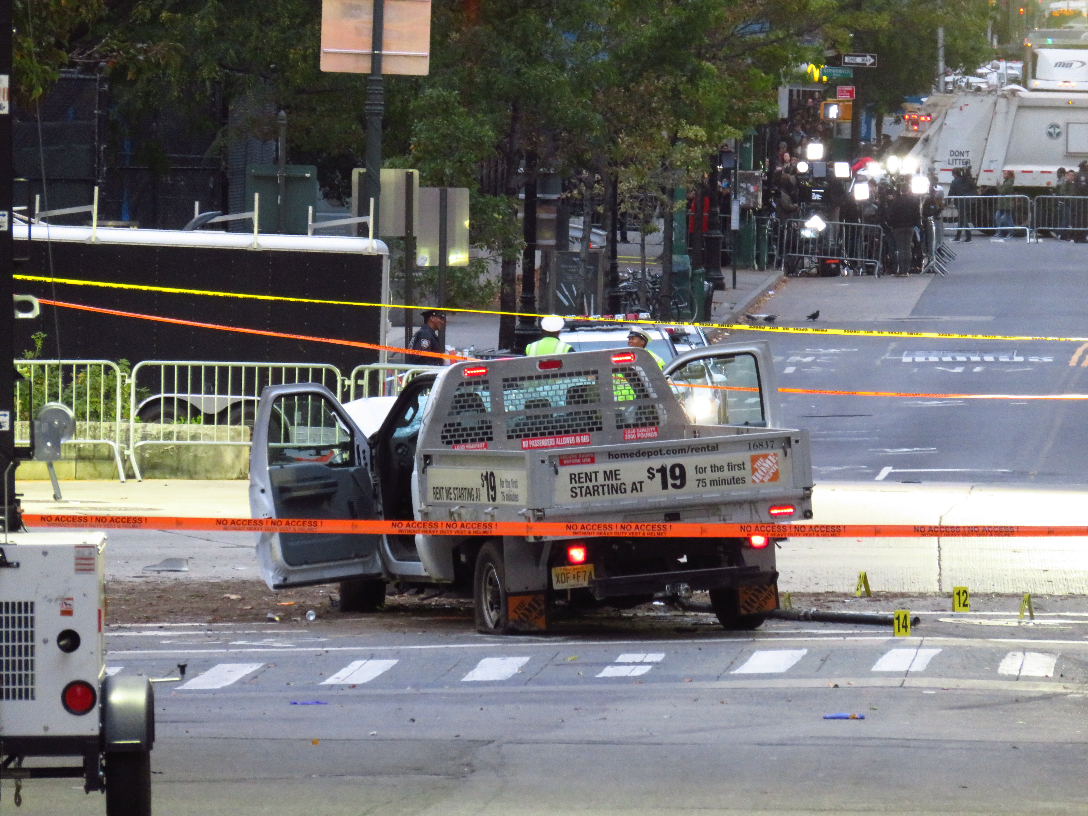 The Home Depot rental truck used by perpetrator Sayfullo Habibullaevich Saipov during the 2017 Lower Manhattan attack, the morning after the incident.